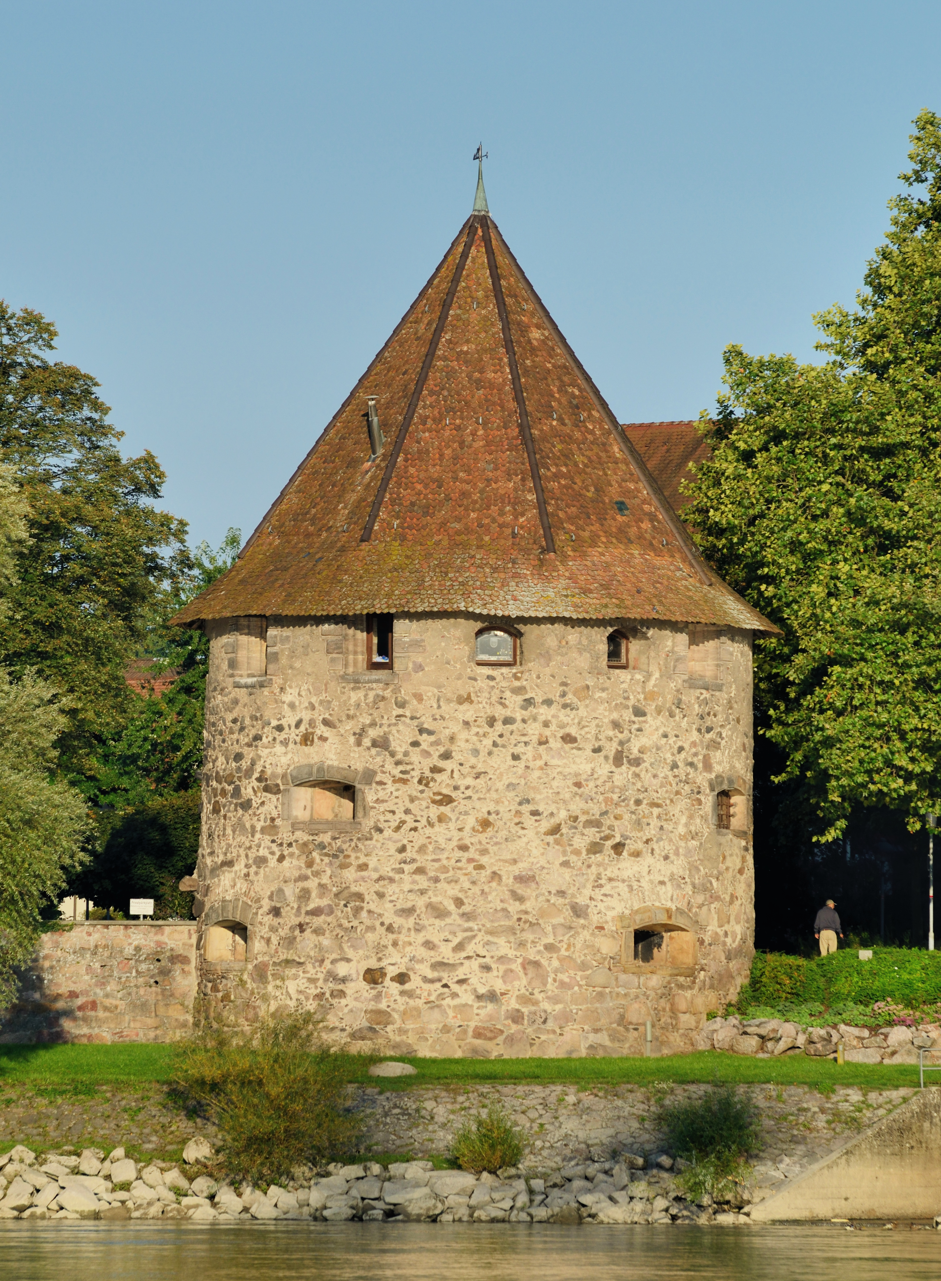 Bad Säckingen: Gallus Tower